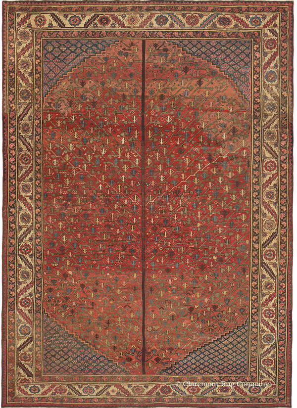 Antique Bakshaish “Tree of Life” Rug 8ft 10in x 12ft 3in Circa 1875